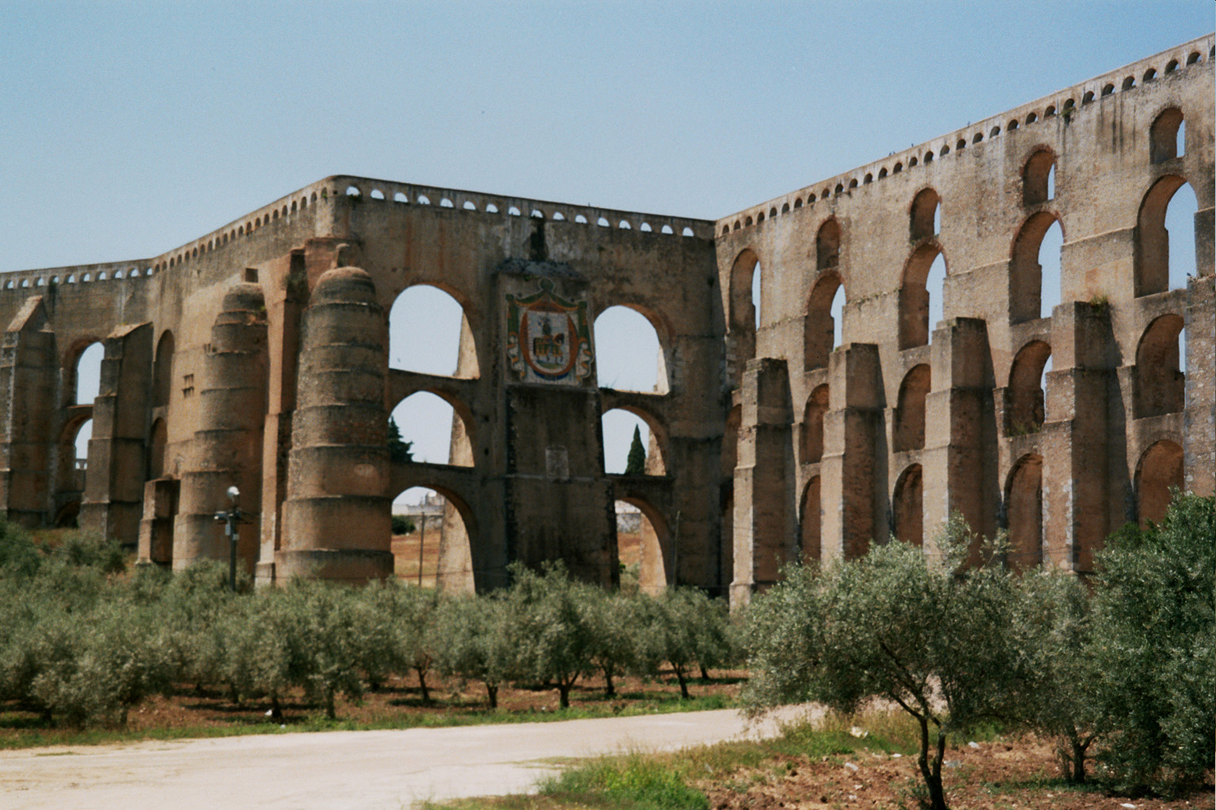 Aqueduct in Elvas, Portugal.